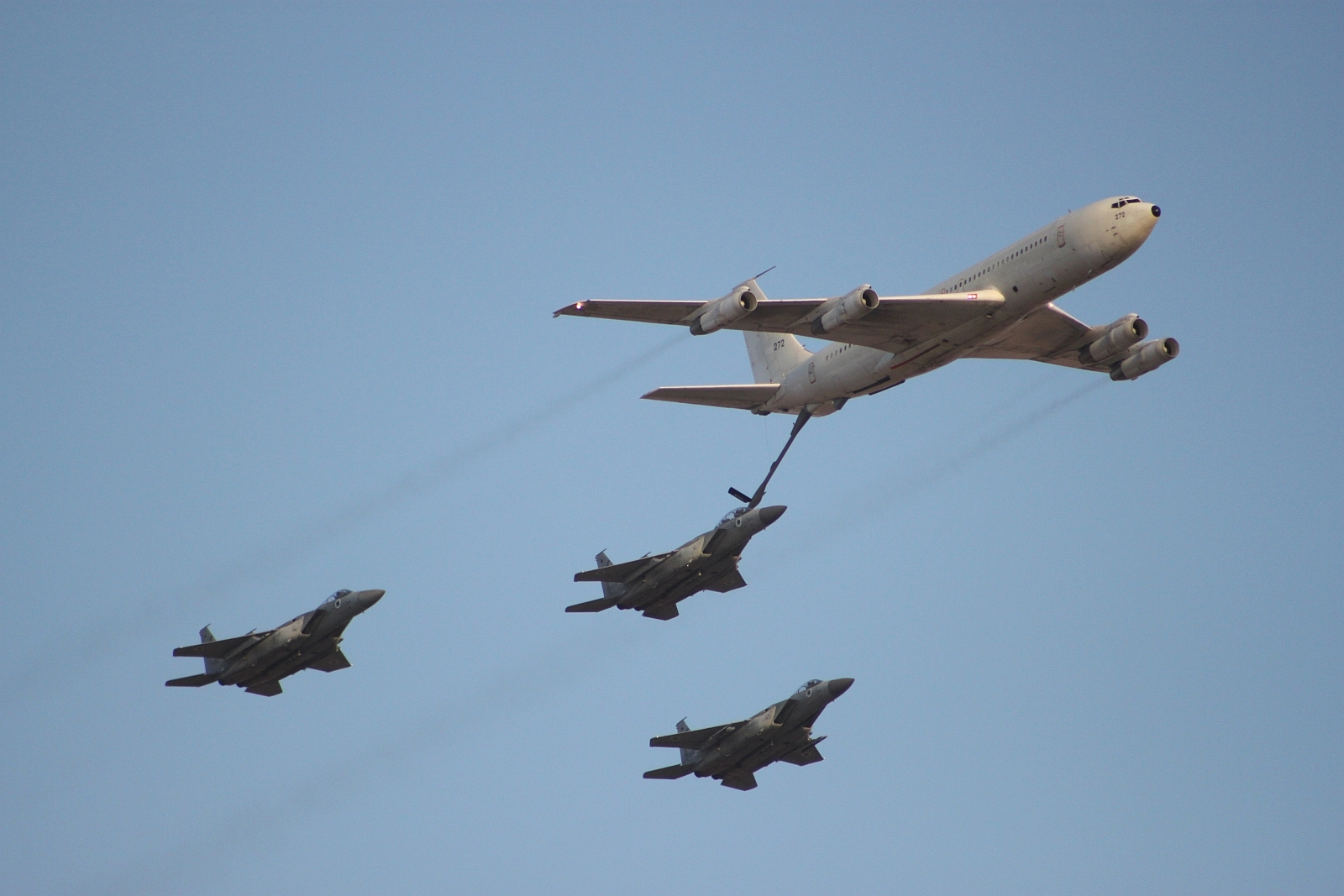 Boeing 707 refueling F-15s, June 28, 2011, Israeli Air Force Flight Academy ranks ceremony.